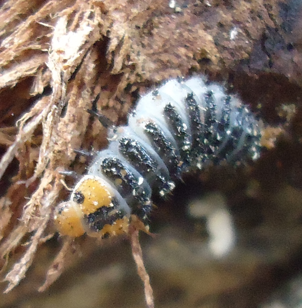 The larva of a pleasing fungus beetle (Episcapha quadrimacula) in Mindanao, Philippines.